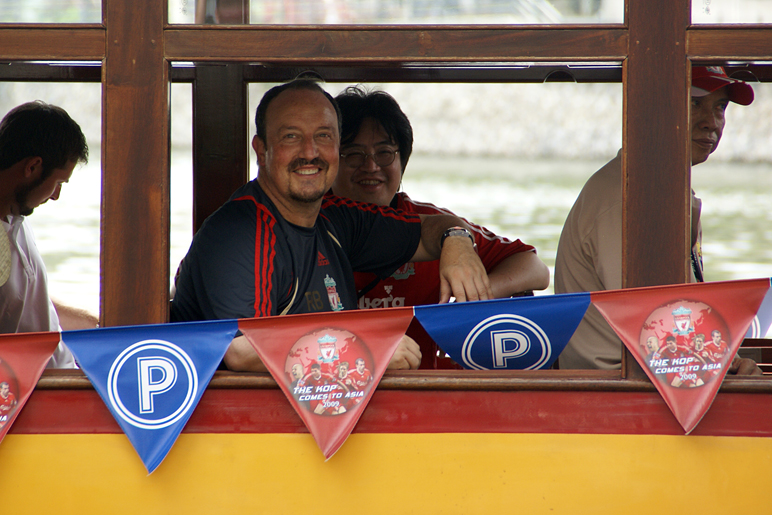 Rafael Benitez during Liverpool's Asia Tour 2009